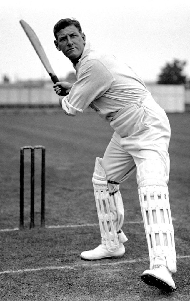 Samuel Moses James Woods, Somerset and England, circa 1905.